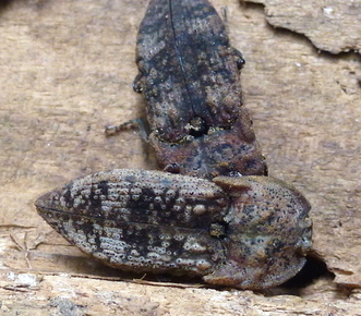 Cook Strait Click Beetle (Amychus granulatus) on Stephens Island, New Zealand